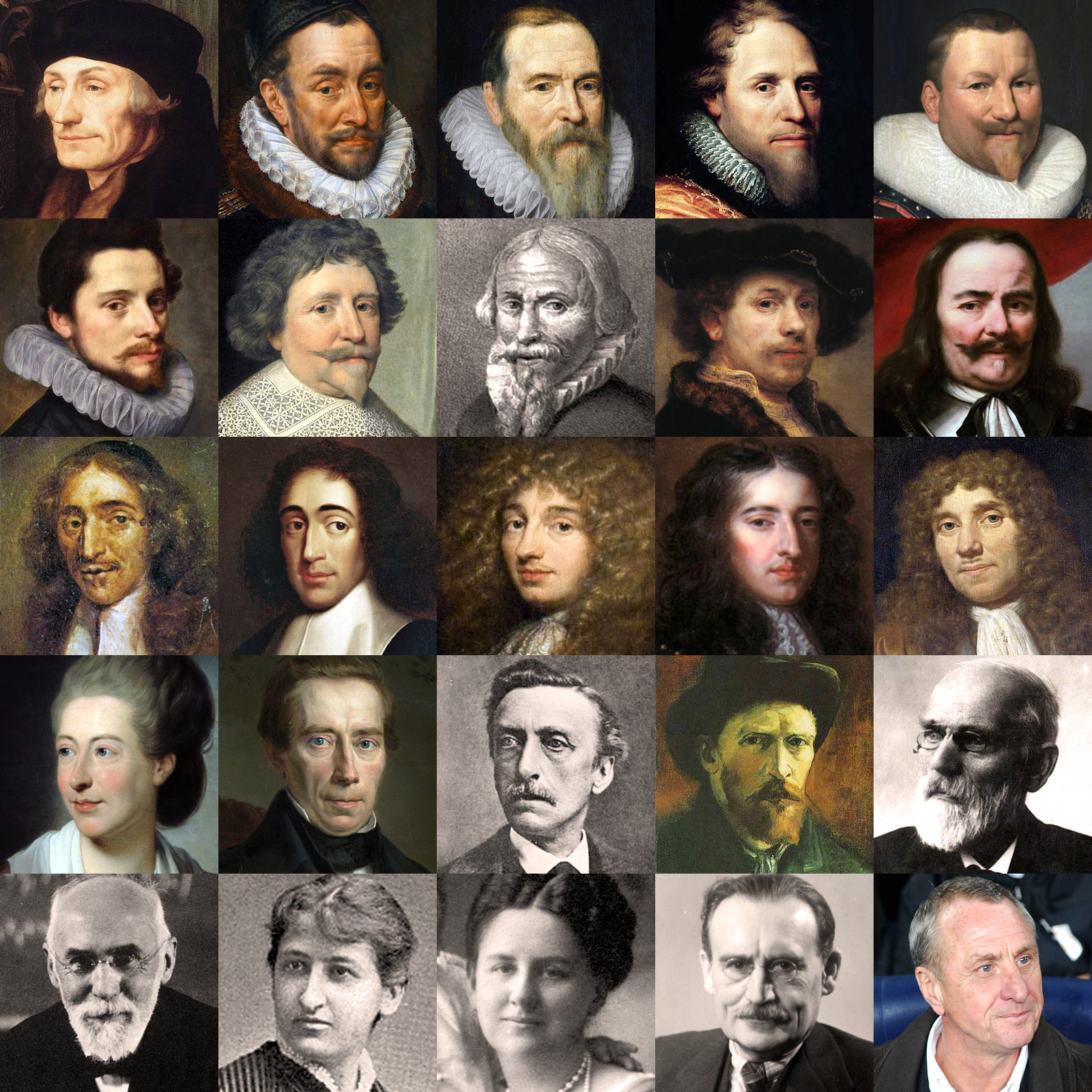 Collage of 25 famous Dutch people